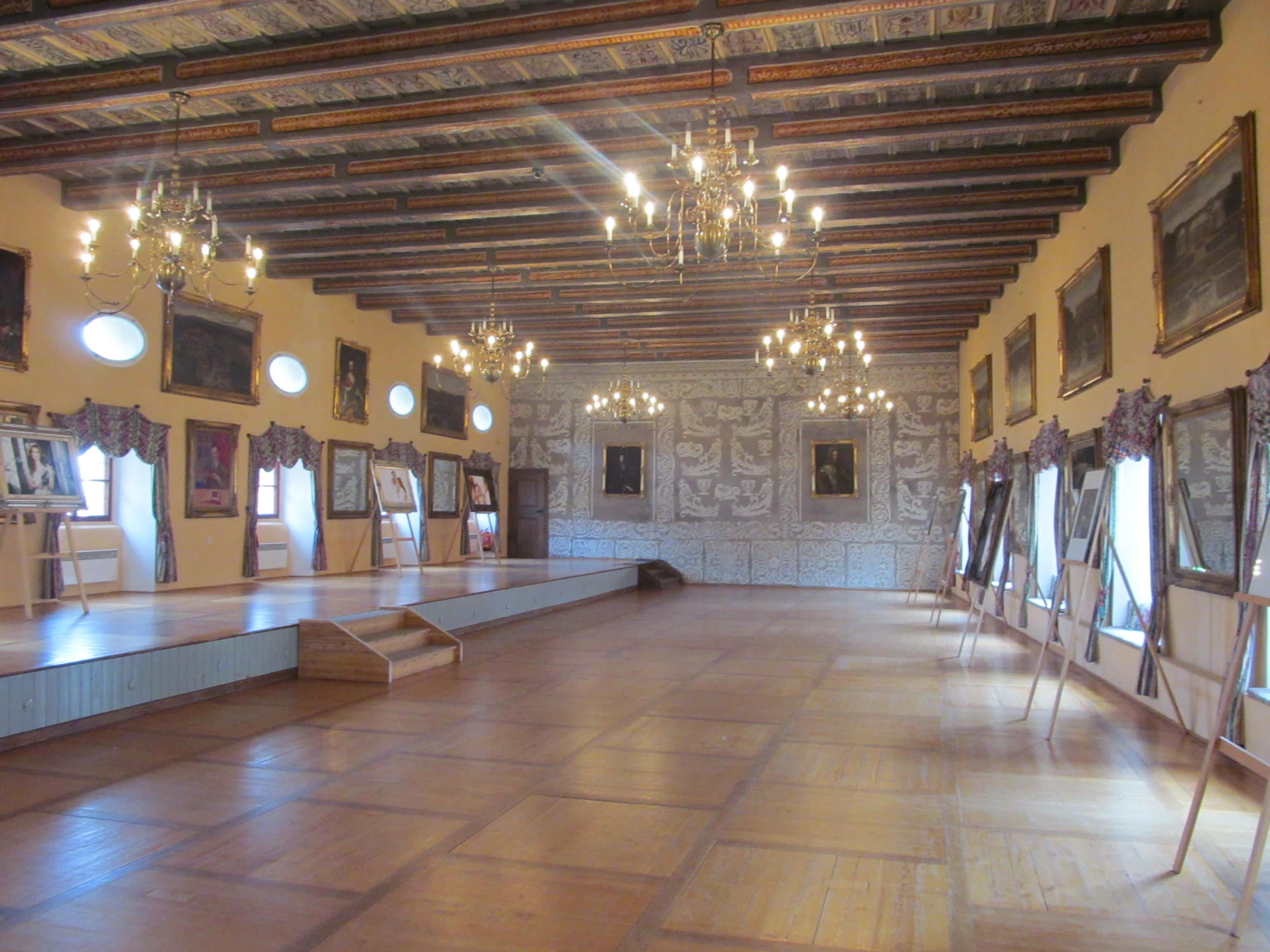 Interior of the Mělník castle